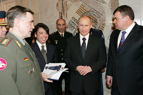 DEFENCE MINISTRY, MOSCOW. Inspecting models of the new Russian Armed Forces uniforms. With Defence Minister Anatoly Serdyukov (right), fashion designer Valentin Yudashkin, and Chief of Rear Services and Deputy Defence Minister Vladimir Isakov.